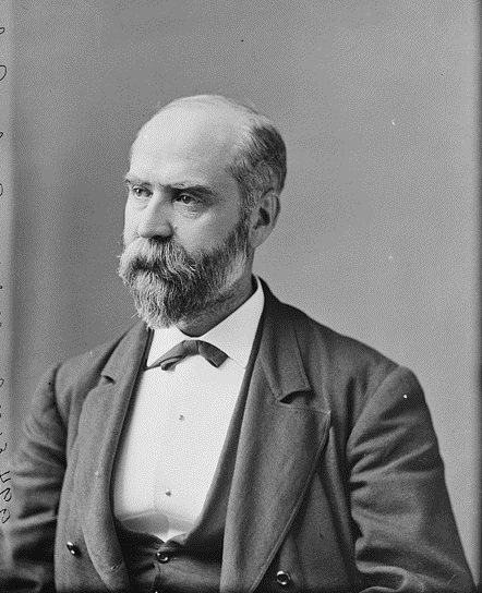 Milton Sayler from Brady Handy Collection.